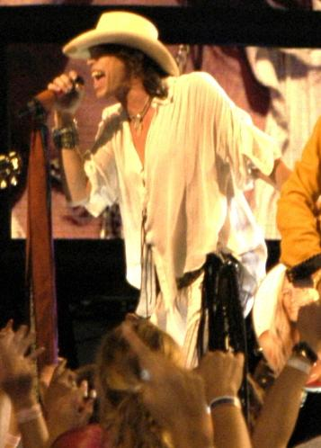 Aerosmith live @ NFL Kickoff Live 2003